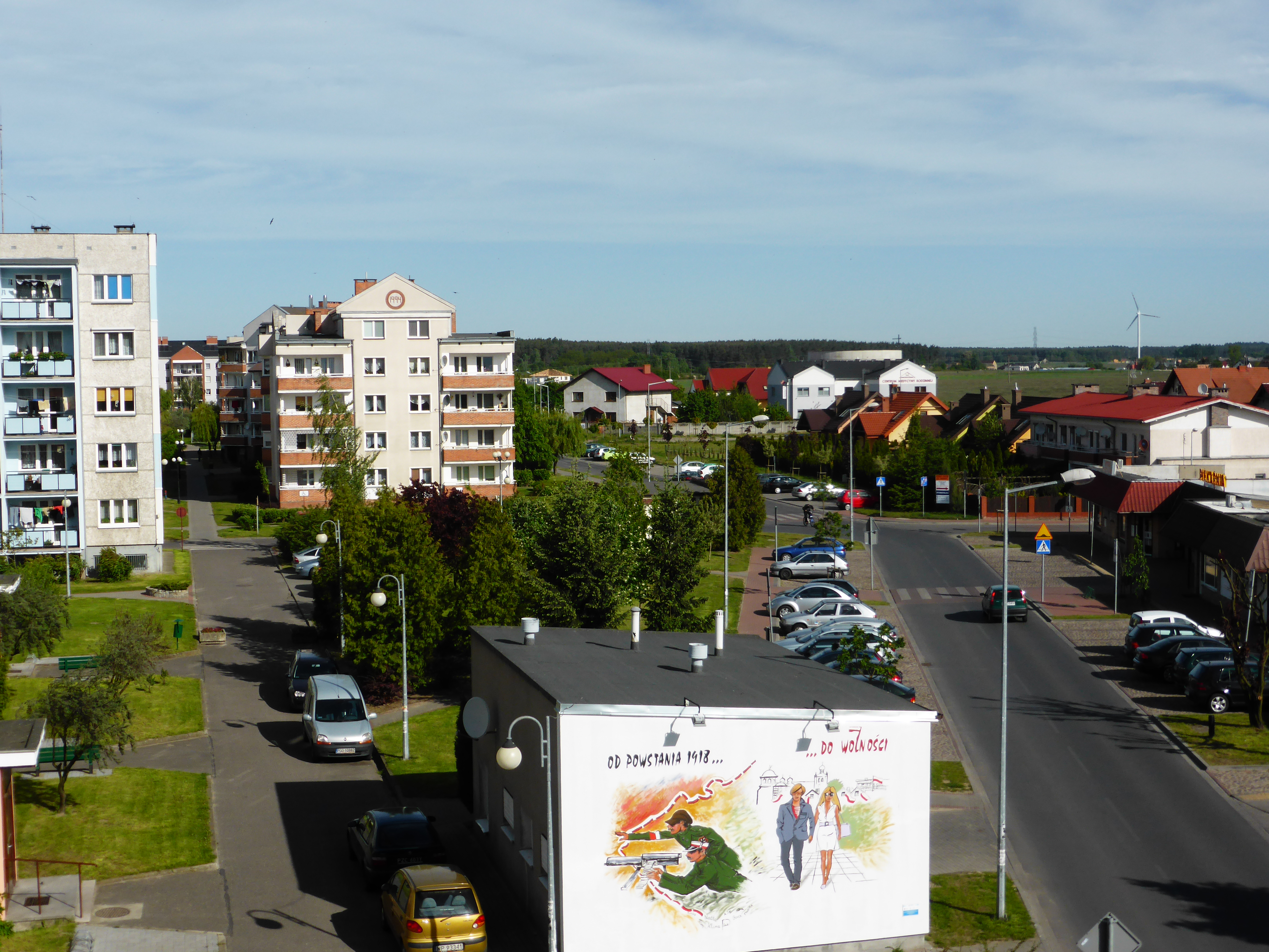 The housing estate, Grodzisk Wielkopolski, Poland